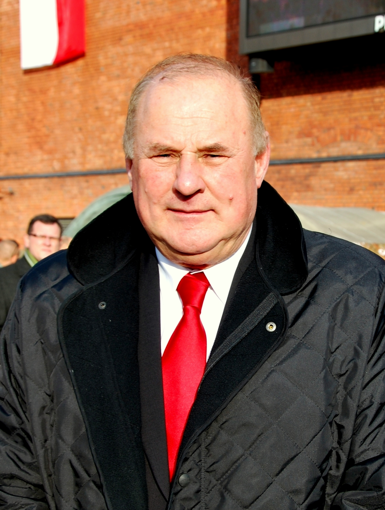 Jan Tomaszewski, former association football player, now member of polish parliament